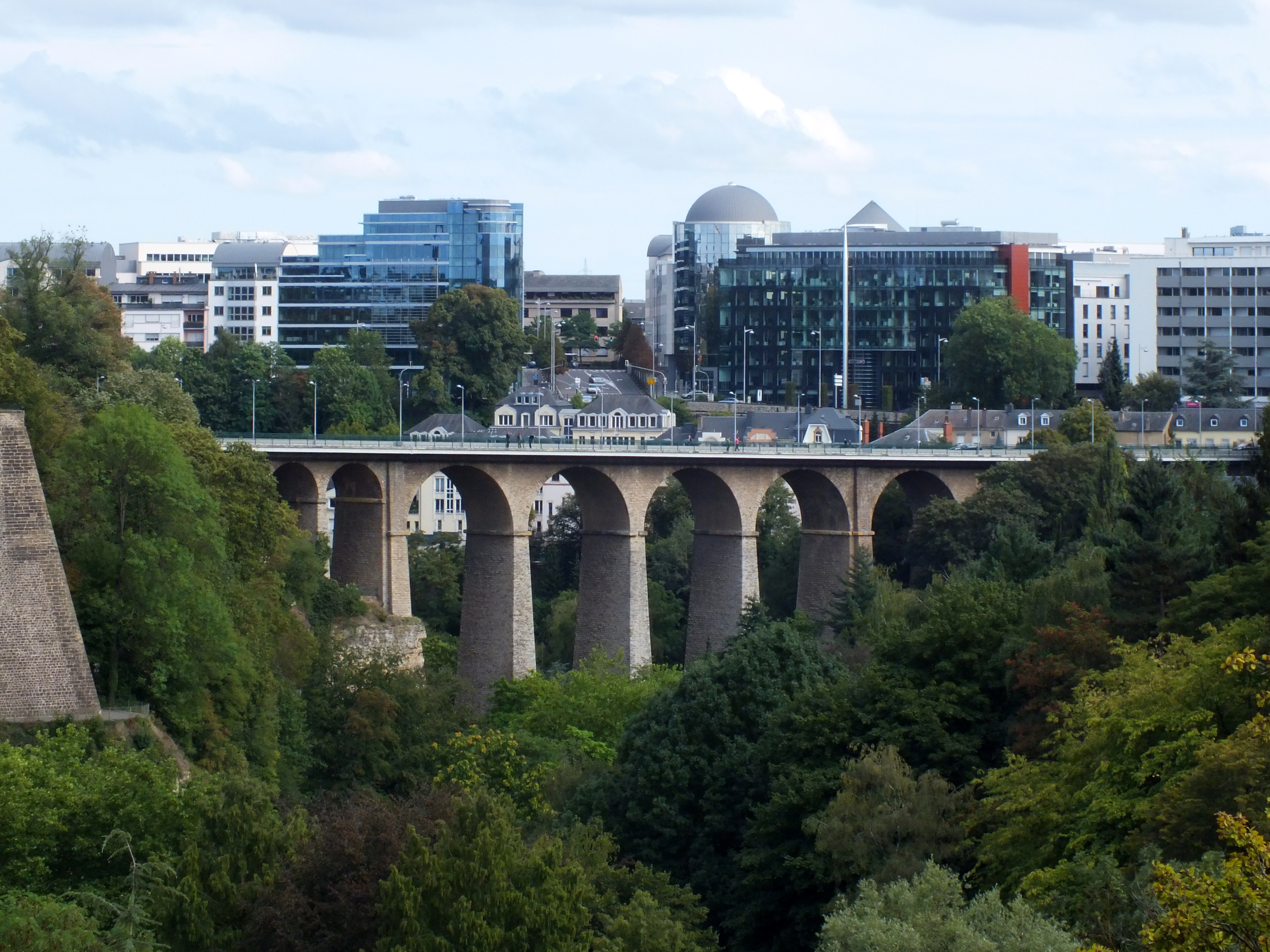 The Passerelle spans over the Pétrusse valley. The buildings in the background are on Boulevard d'Avranches.